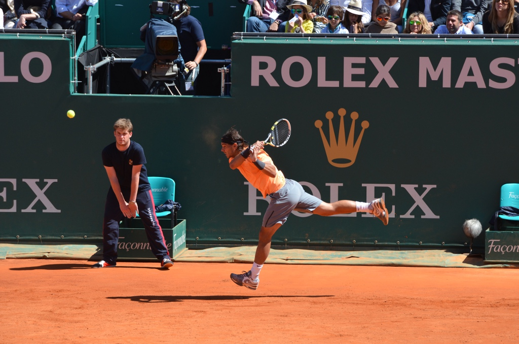 Rafael Nadal at the Rolex Masters finals against Novak Đoković.